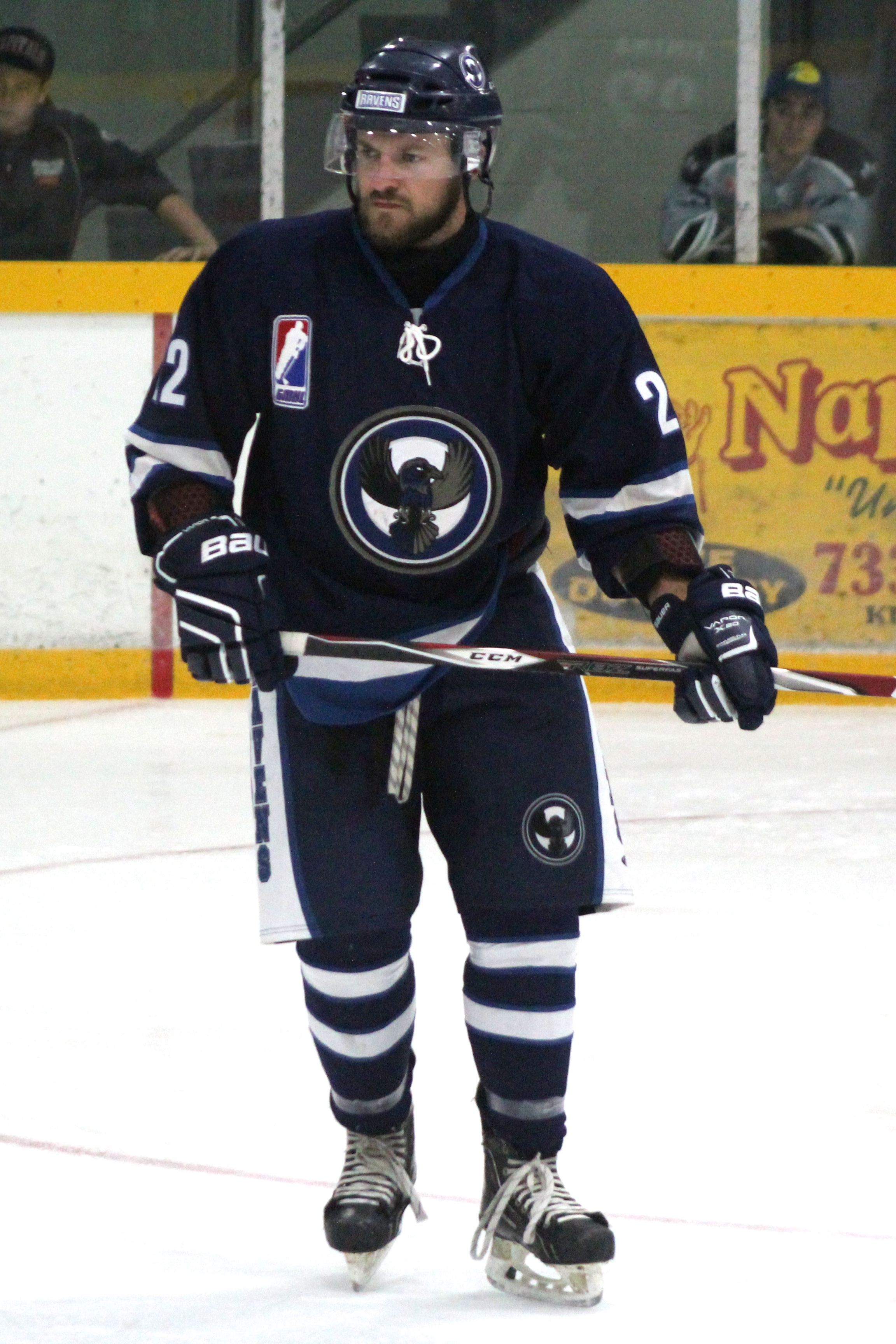 These images of GMHL Action action during the 2015-16 season are taken by Devan Mighton.